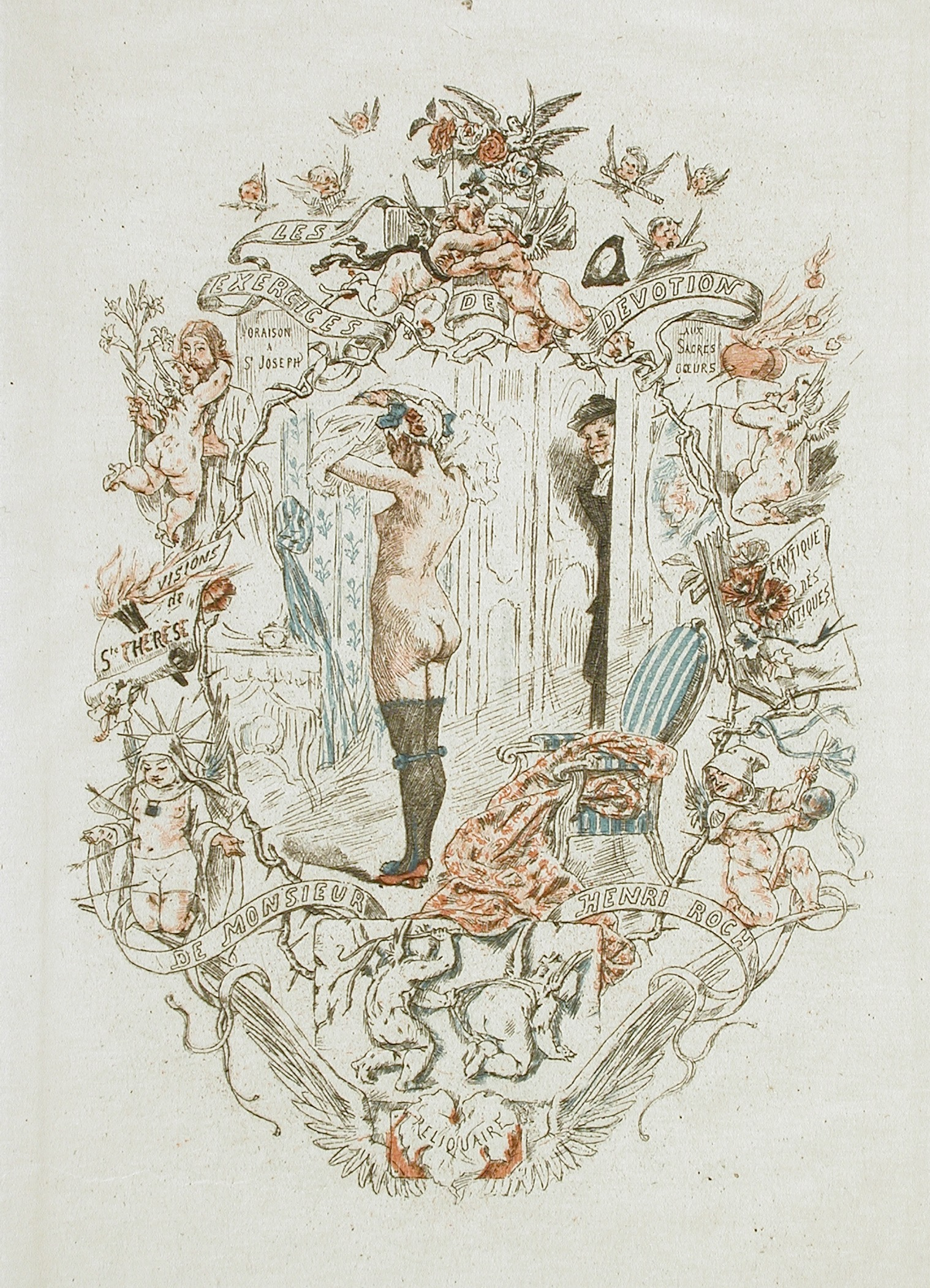 Belgium, 1882 Series: Les Exercices de dévotion de M. Henri Roch avec Mme. la duchesse de Condor, frontispiece Prints; etchings Etching Gift of Michael G. Wilson (M.81.313.97) Prints and Drawings